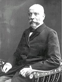 Gustav Schneider, mayor of Magdeburg, Germany